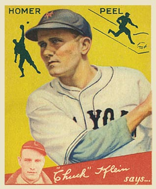 1934 Goudey baseball card of Homer Peel of the New York Giants #88. PD-not-renewed.